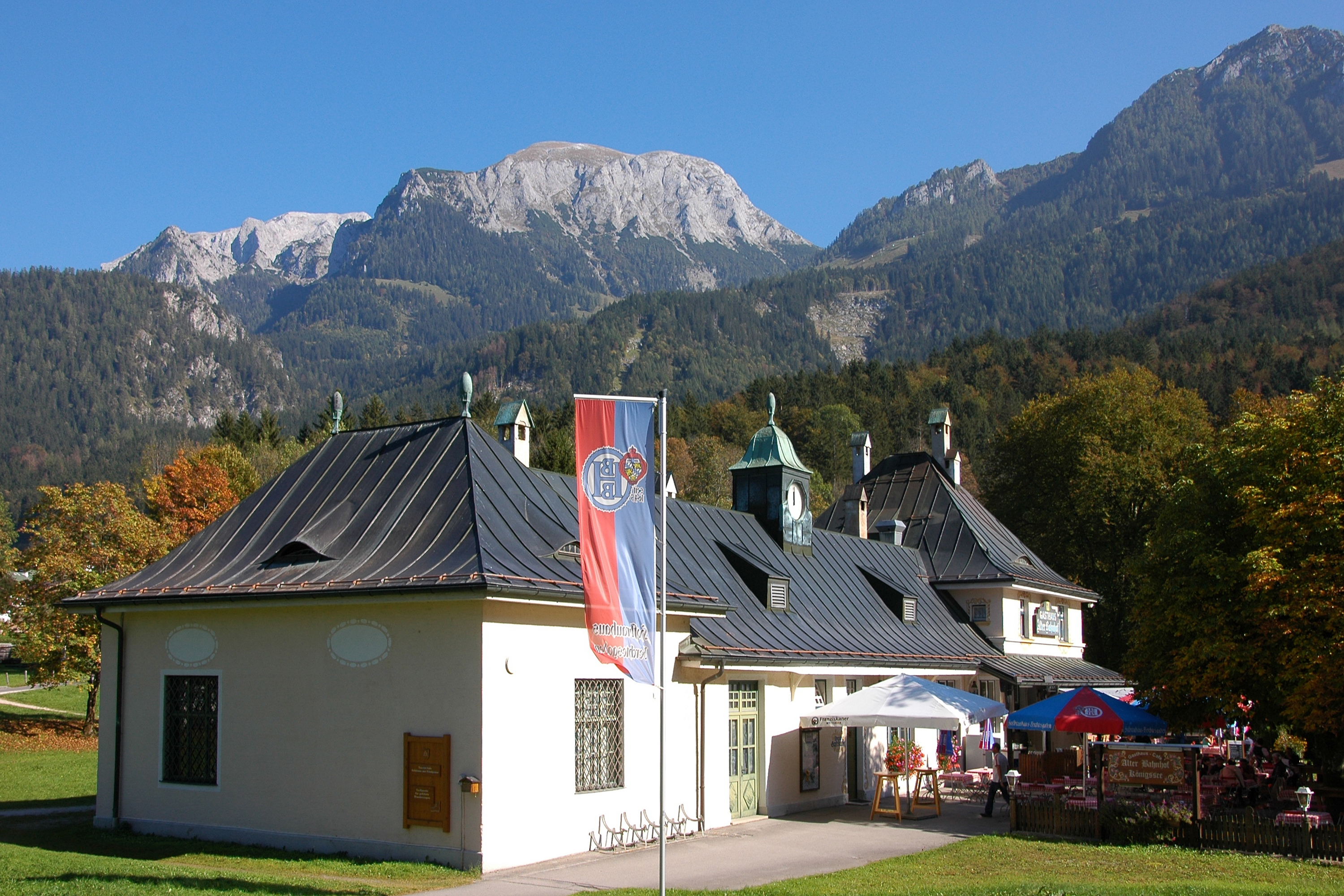 Former station building of Königssee station. Today it is housing a restaurant.